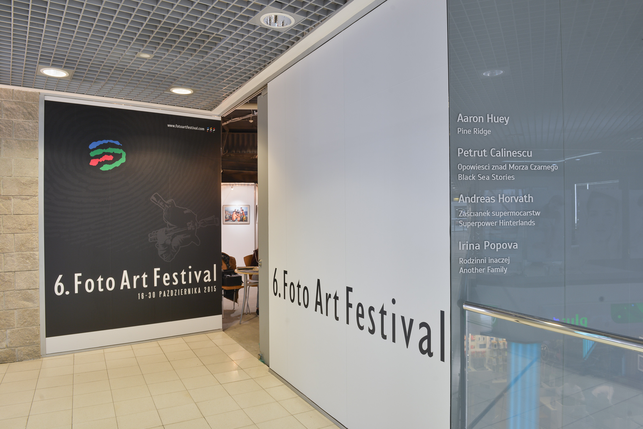 6. FotoArtFestival Biennial of world photography. Bielsko-Biała. Poland. Exhibition